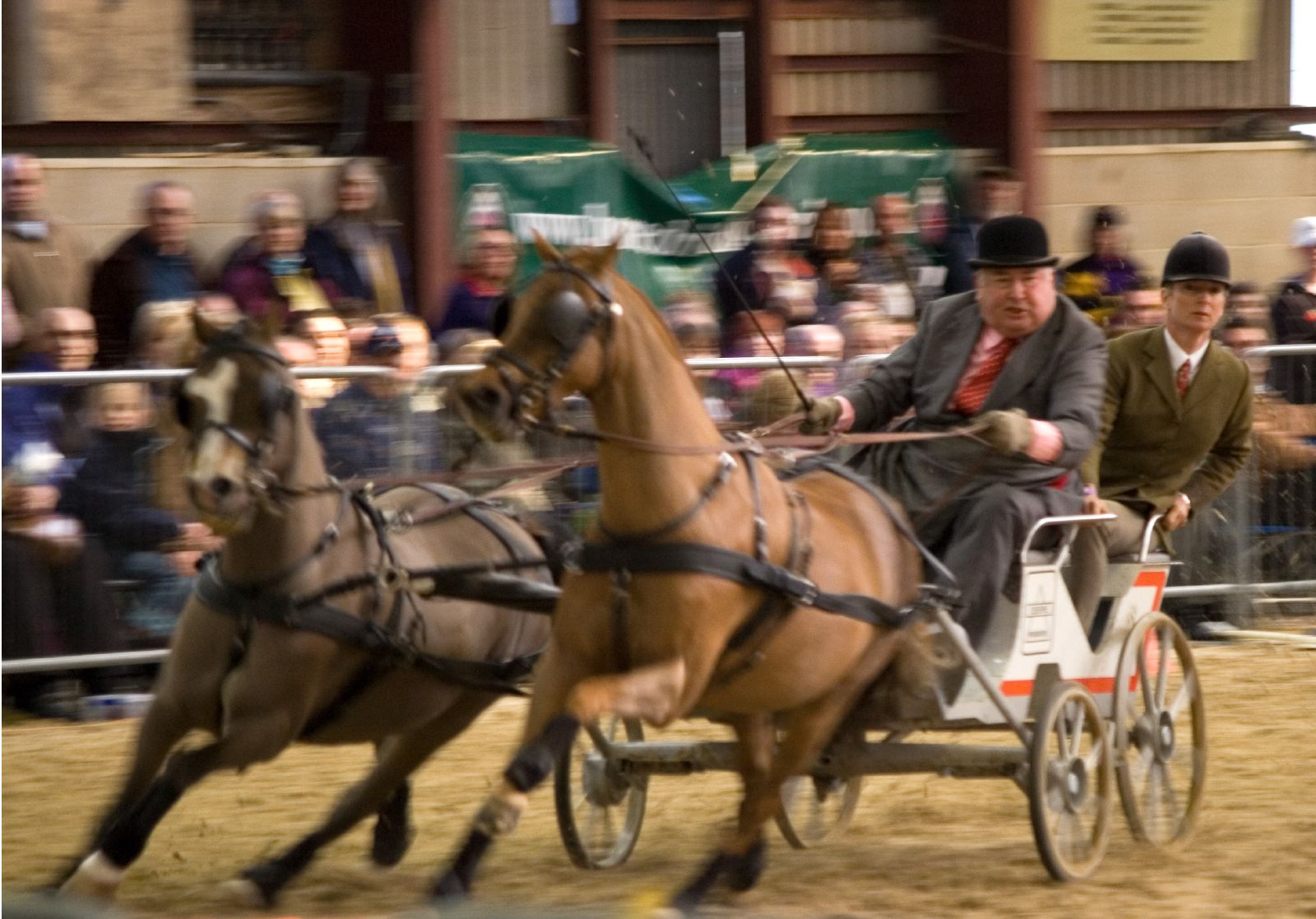 South of England Carriage Driving 2007, Ardingly Sussex